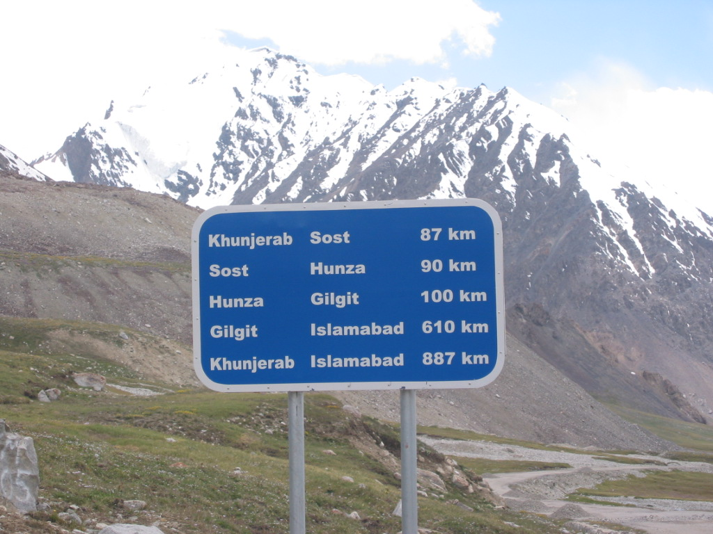 It tells you accurately about the distances and thus gives you a helpful perspective